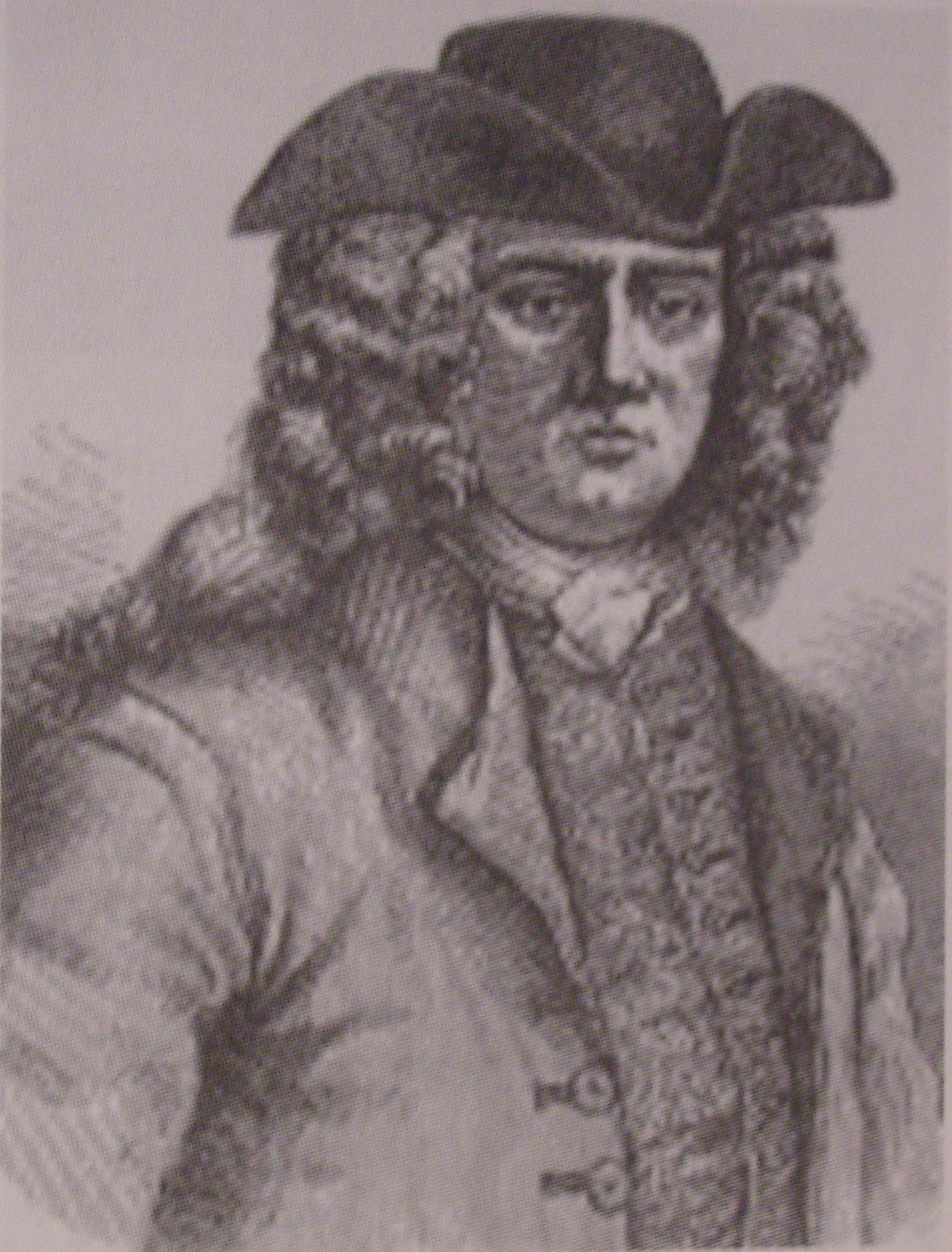 Cornelius Cruys about 1678